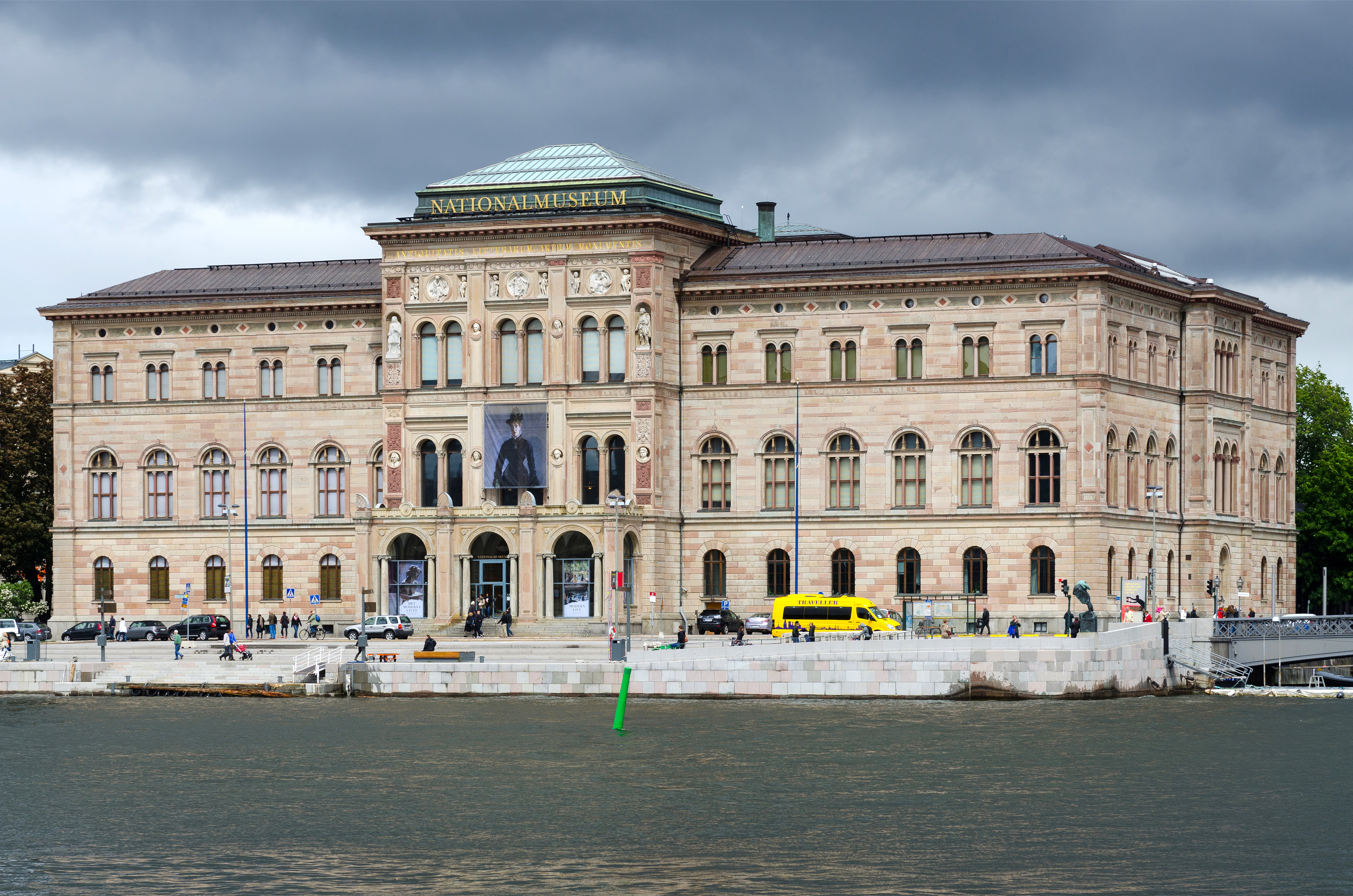 Nationalmuseum, in Stockholm, Sweden.